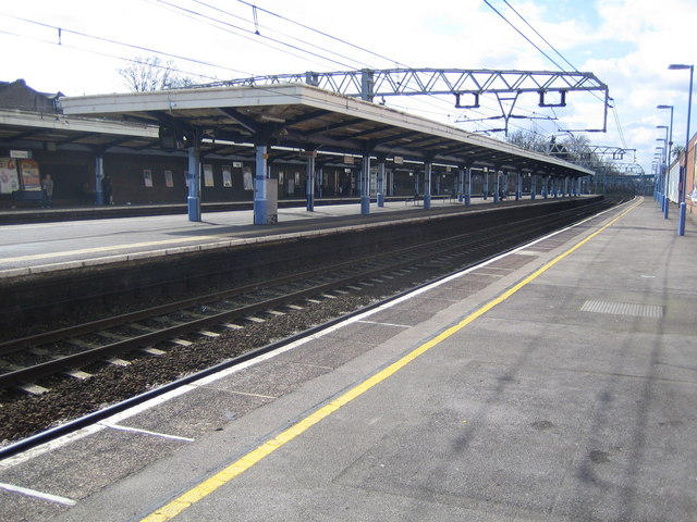 Forest Gate railway station This grid square is unusual in having two completely separate Network Rail stations in it. This is Forest Gate on the Liverpool Street to Shenfield line, looking in the direction of the former.